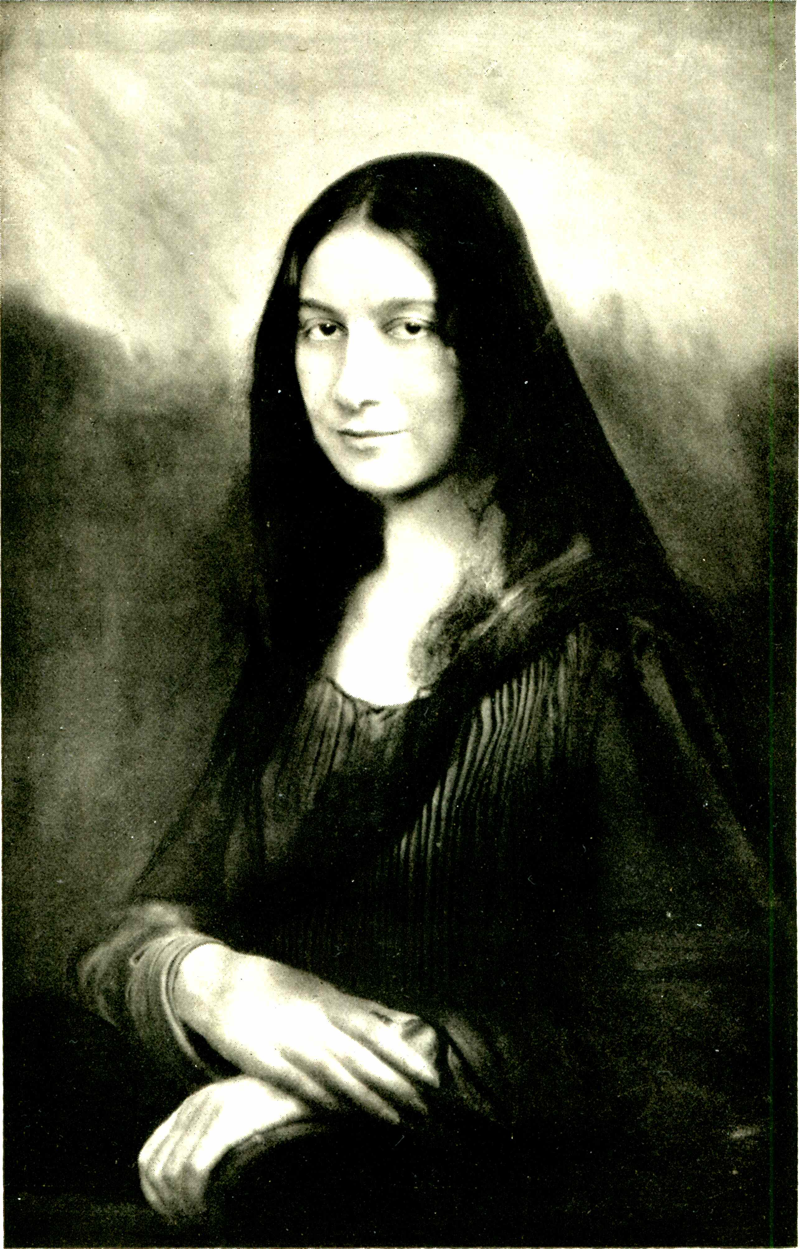 Marguerite Agniel "As Mona Lisa" by Robert Henri, c. 1929. Henri called Agniel "the perfect Mona Lisa type". Agniel included the image in her 1931 book The Art of the Body.